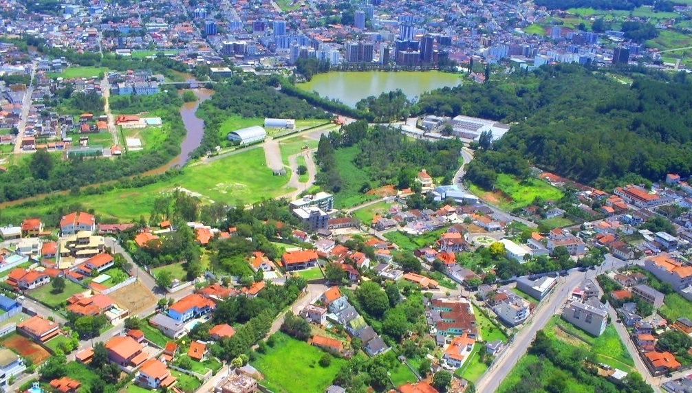 Vista aérea de São Lourenço, Minas Gerais